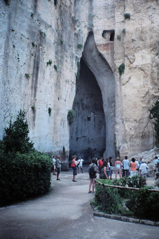 The Ear of Dionysius (Italian: Orecchio di Dionisio), an artificial limestone cave carved out of the Temenites hill in the city of Syracuse, Sicily, Italy.